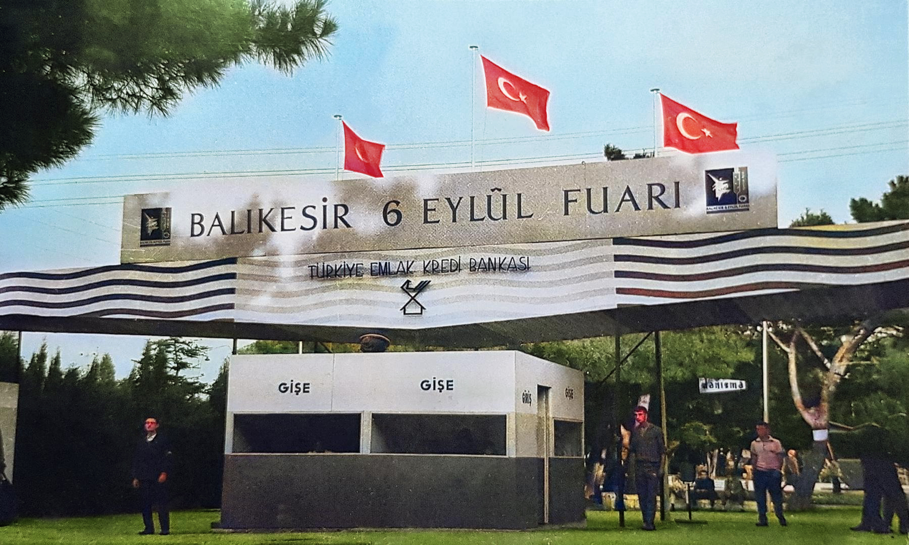 Balikesir 6 Eylül Expo (6th September Expo), the date which is the independence day of Balikesir